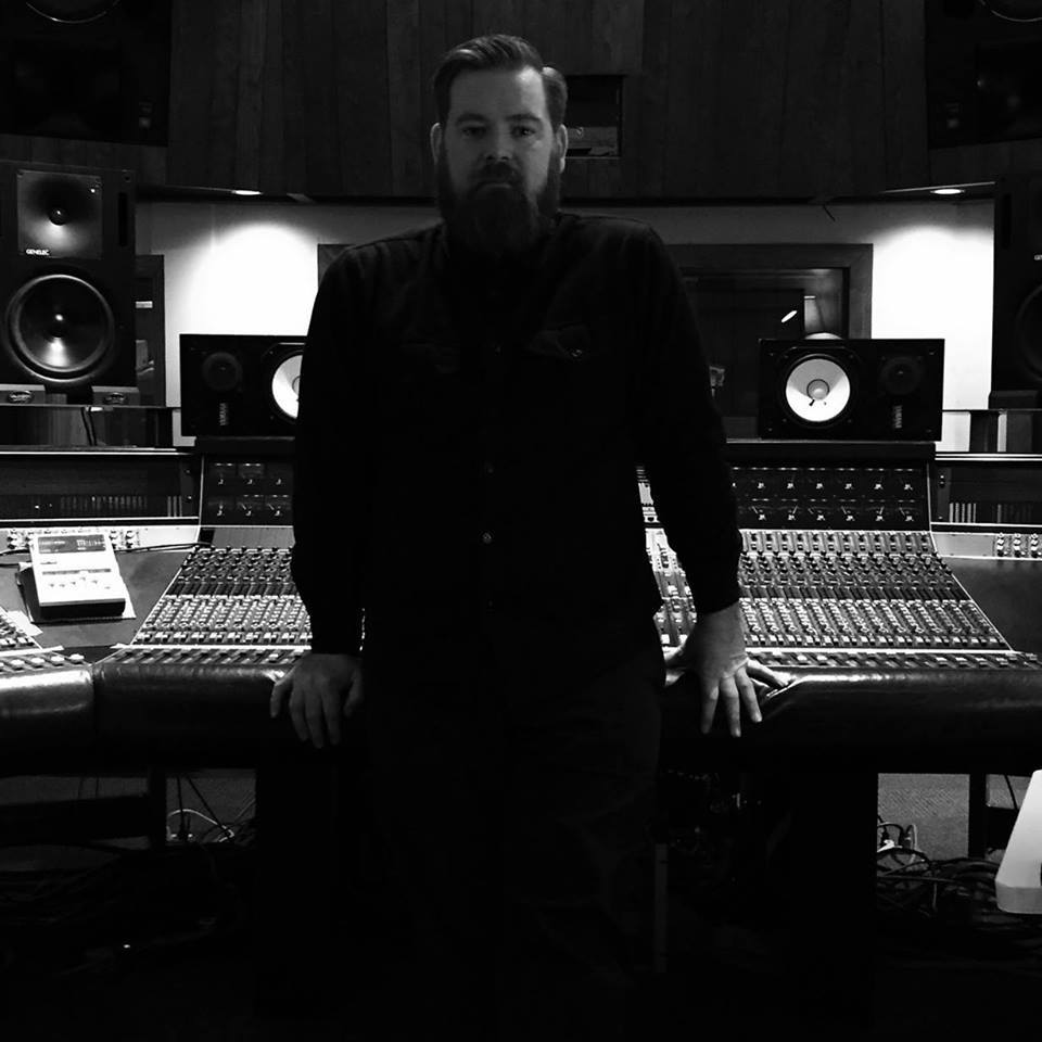 Photo by Marissa Nadler